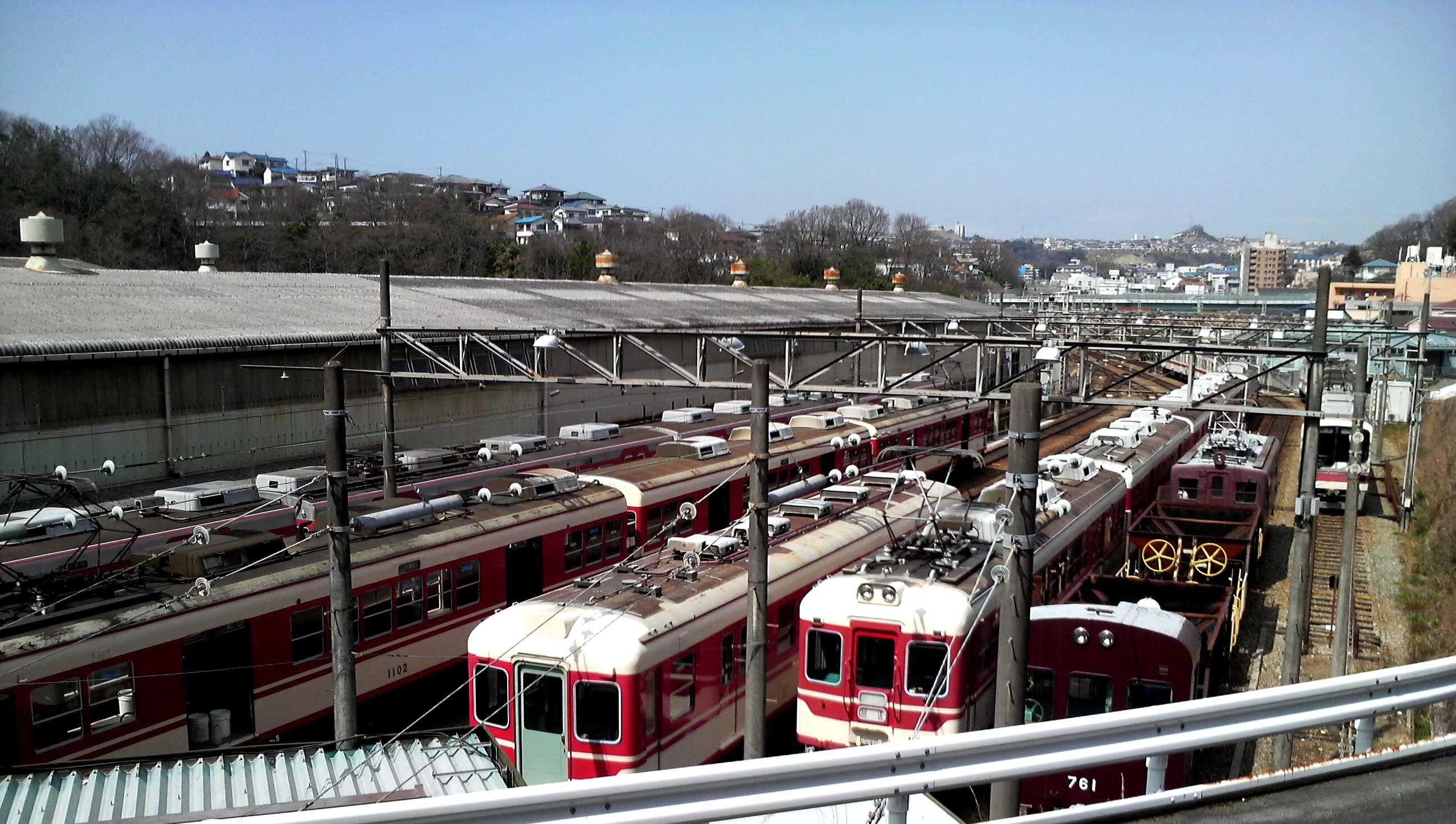 Kobe Electric Railway Suzurandai Depot